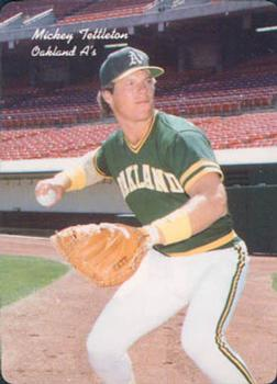 A baseball card of Mickey Tettleton from the 1986 Mother's Cookies Oakland Athletics set.